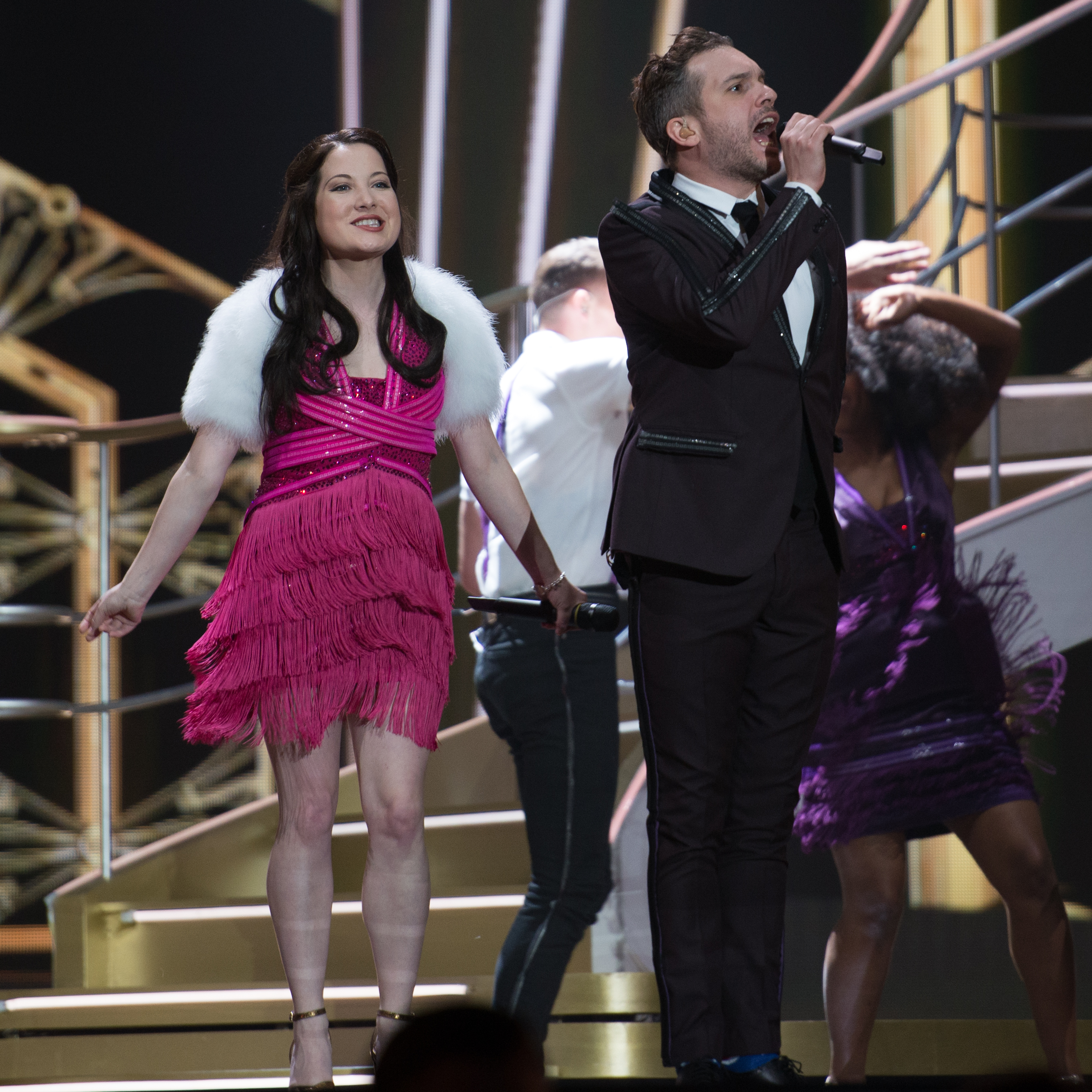 Eurovision Song Contest Vienna 2015: Electric Velvet